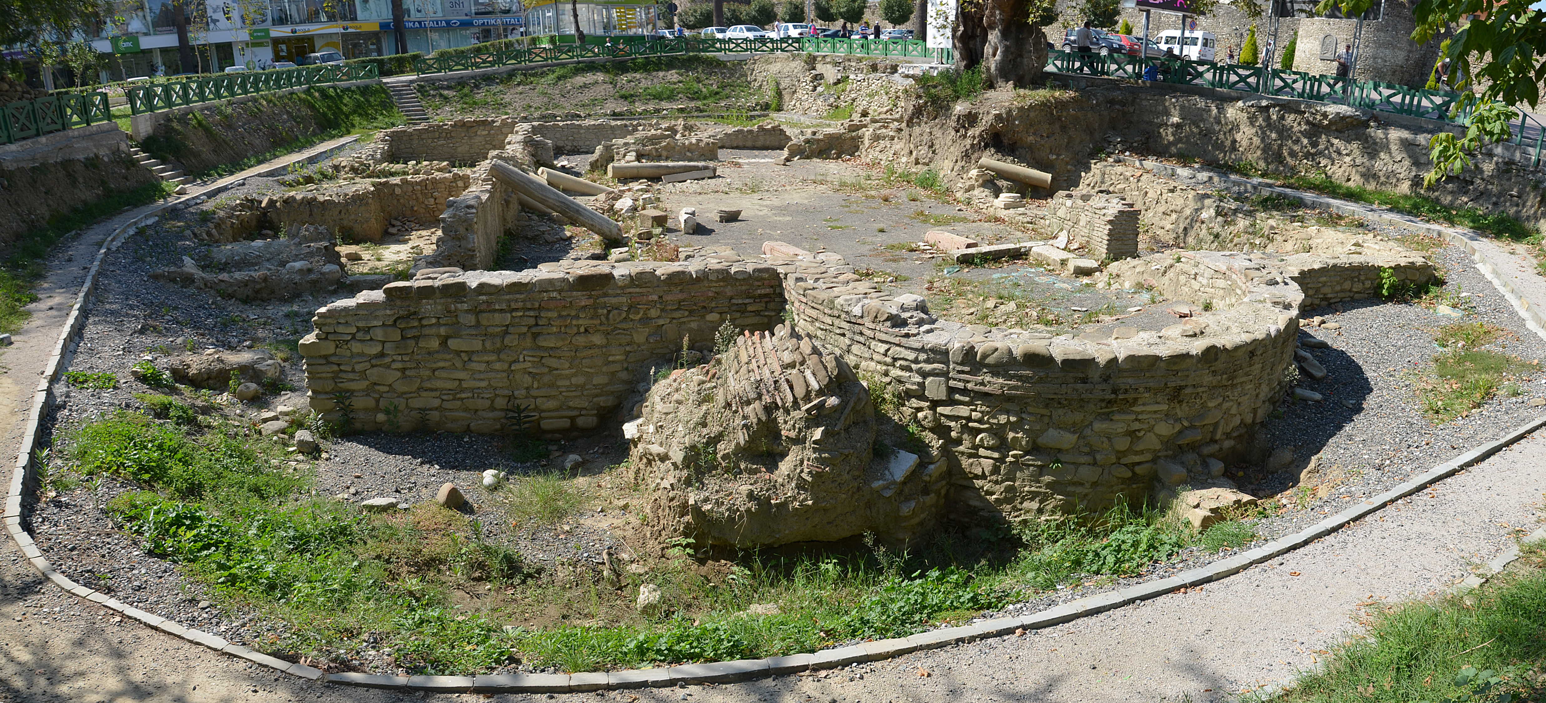 Remains of a 5-6th century Paleochristina basilica in Aqif Pasha Park, Elbasan, Albania